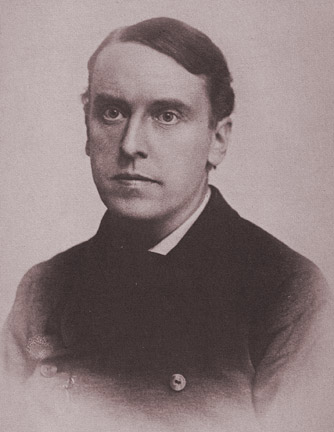 Edward Aveling, British socialist